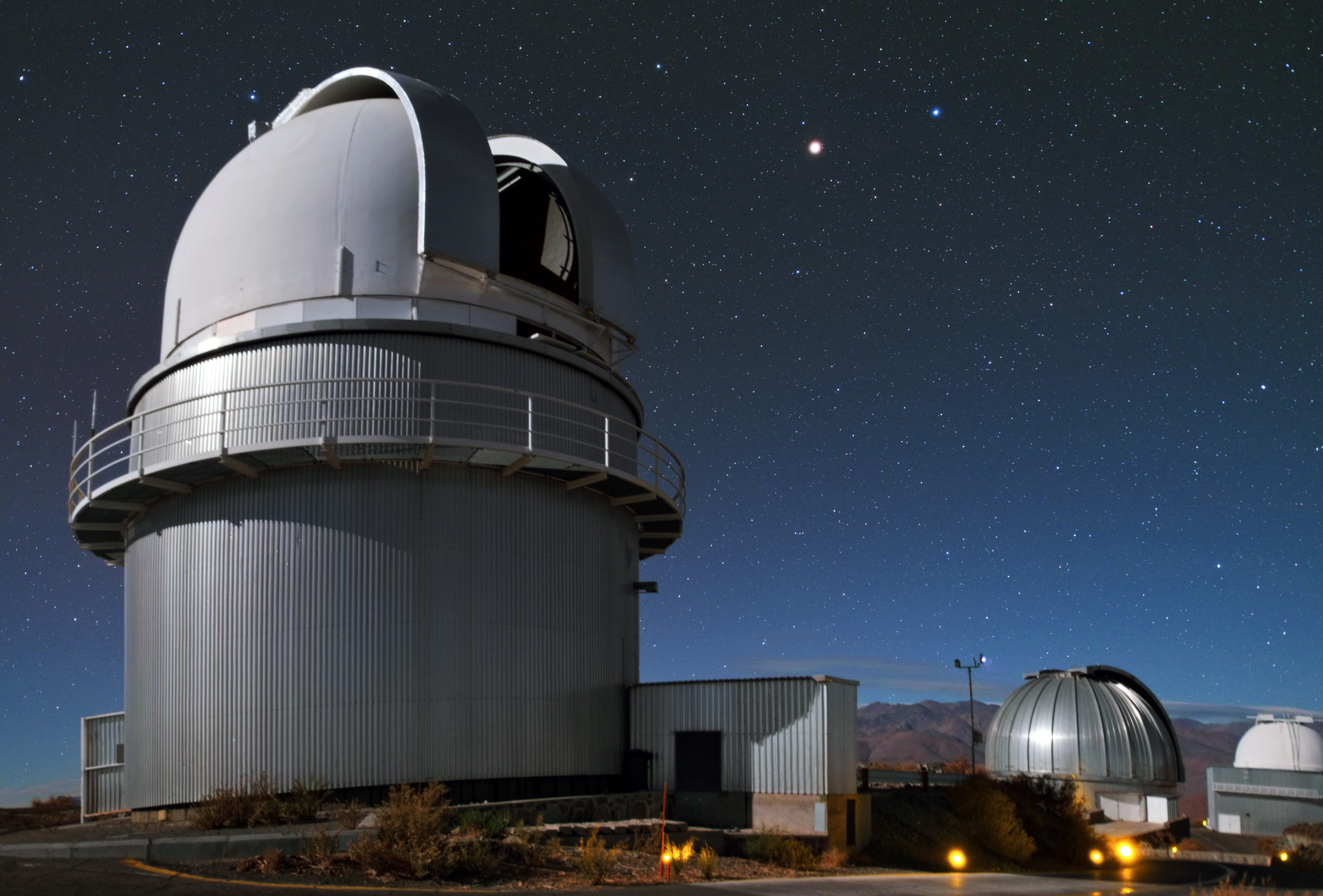 Danish 1.54-metre telescope at La Silla This is the housing of the Danish 1.54-metre telescope that has been in use at La Silla since 1979. It was completely overhauled in 1993 and is now equipped with the Danish Faint Object Spectrograph and Camera spectrograph/camera. Behind it we can see the decommissioned MPG/ESO 2.2-metre telescope and the decommissioned ESO 1-metre Schmidt telescope. Credit: Y. Beletsky (LCO)/ESO